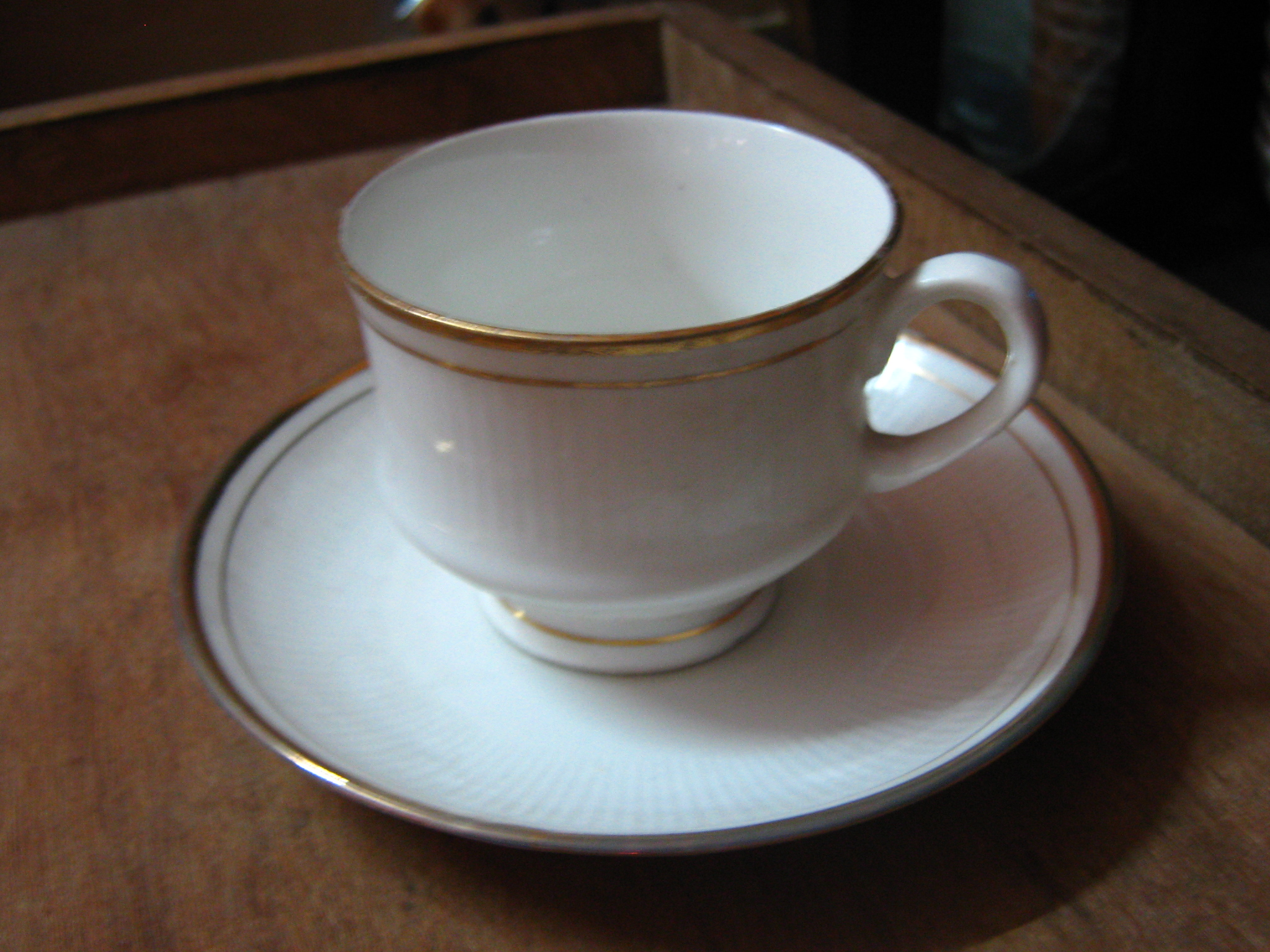 utensils used in Indian kitchen.